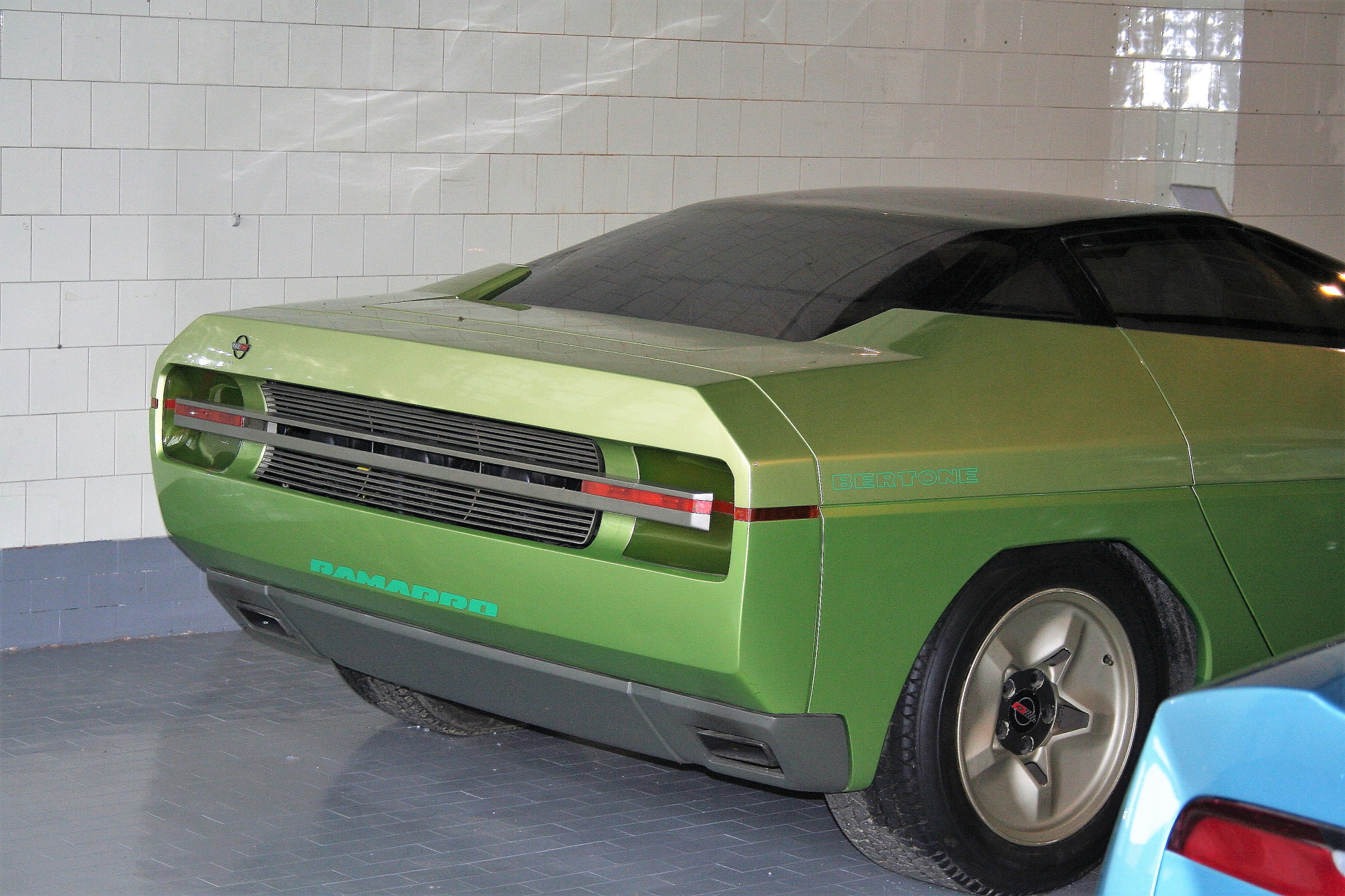 Bertone Ramarro. At the Bertone collection of the Automotoclub Storico Italiano (ASI), located in Volandia outside of Milan (by the Malpensa airport and museum areas